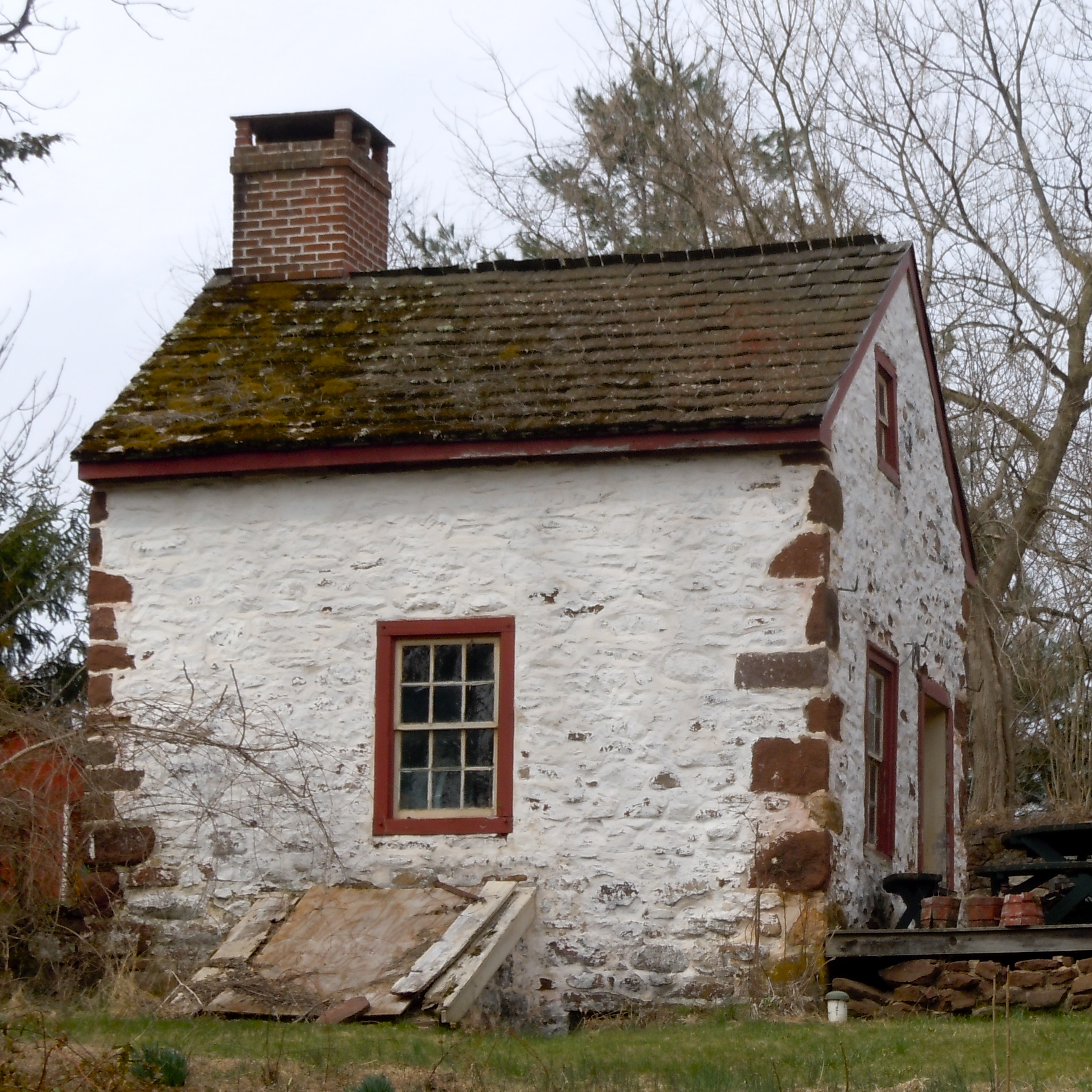 Summer kitchen at the Mordecai Lincoln Farm in Berks County, Pennsylvania. The building there are on the NRHP. House was built c. 1733 by Mordecai Lincoln, the President's great-great-grandfather, but the summer kitchen wasn't built until about 1820.